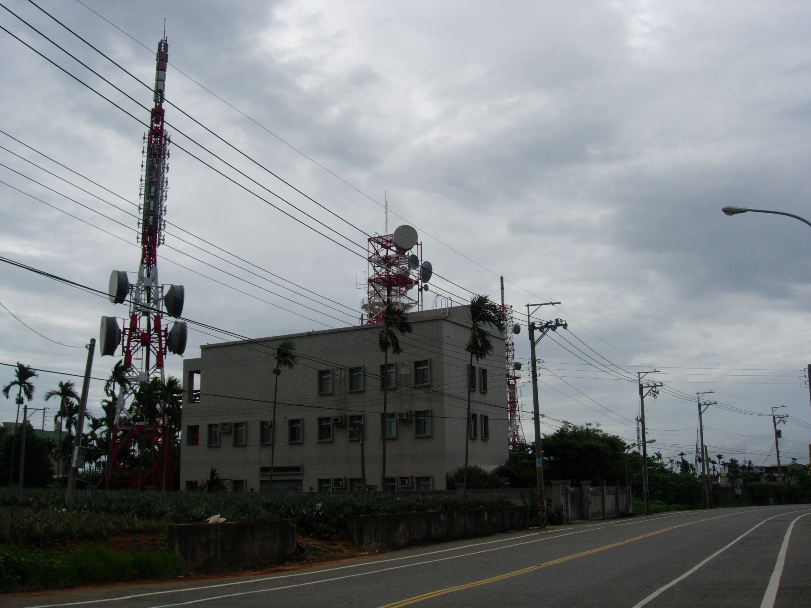 Fongshan Village Broadcast Station, Nantou City.